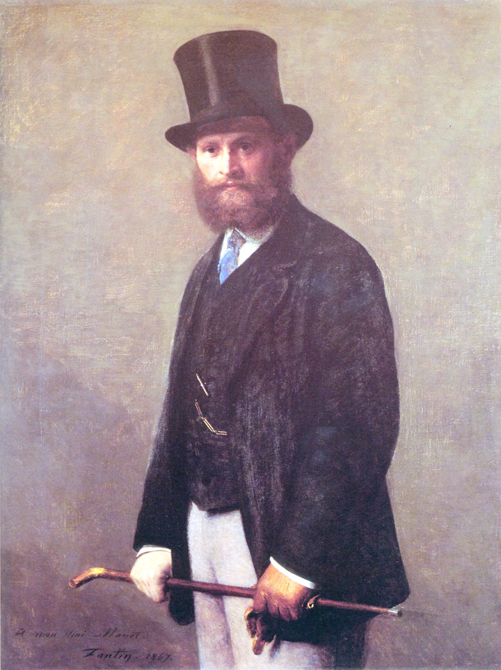 Portrait painting of Édouard Manet.